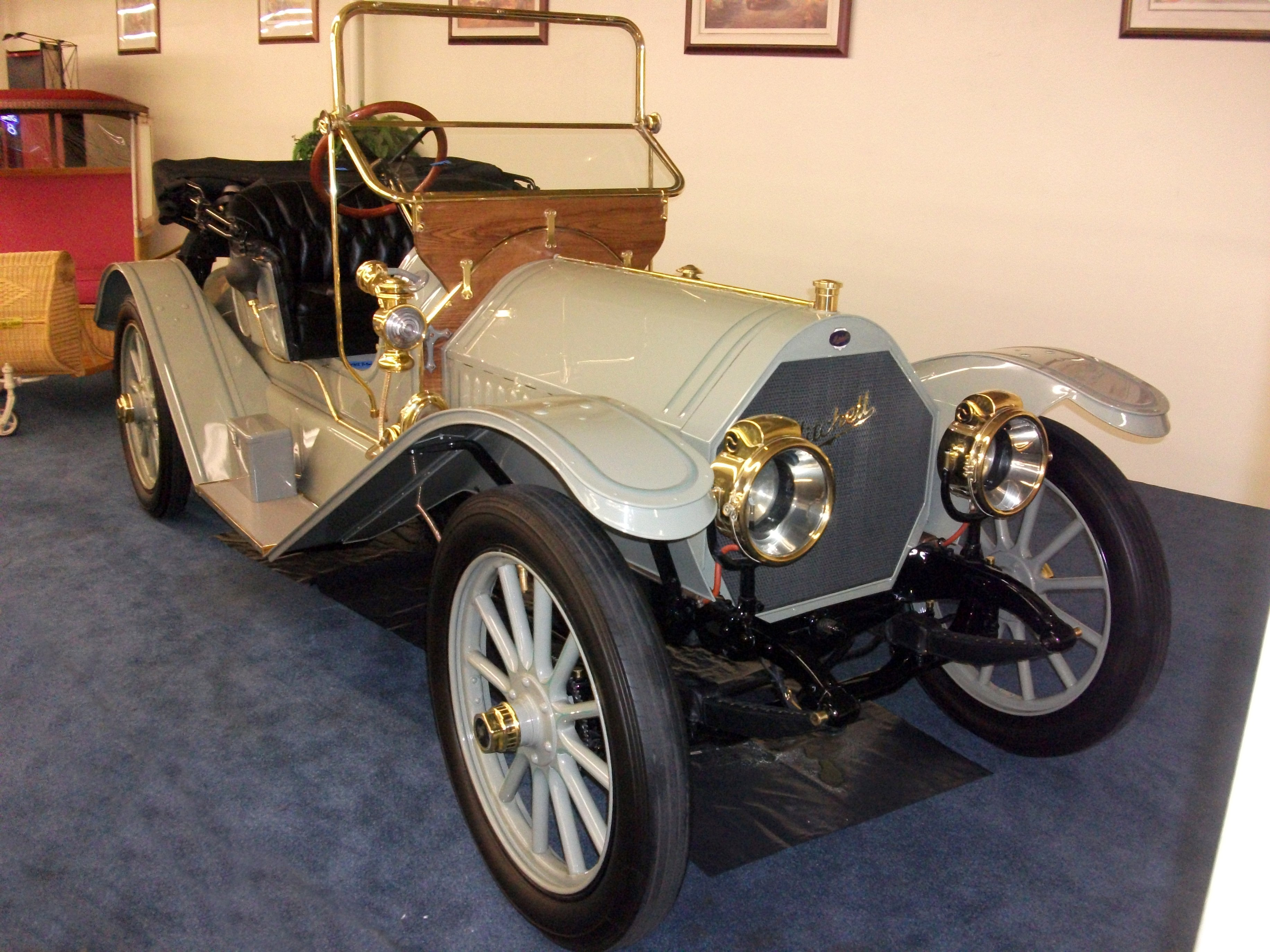 Powered by a 50hp L-head inline six cylinder engine this is believe to be the only surviving six cylinder runabout.